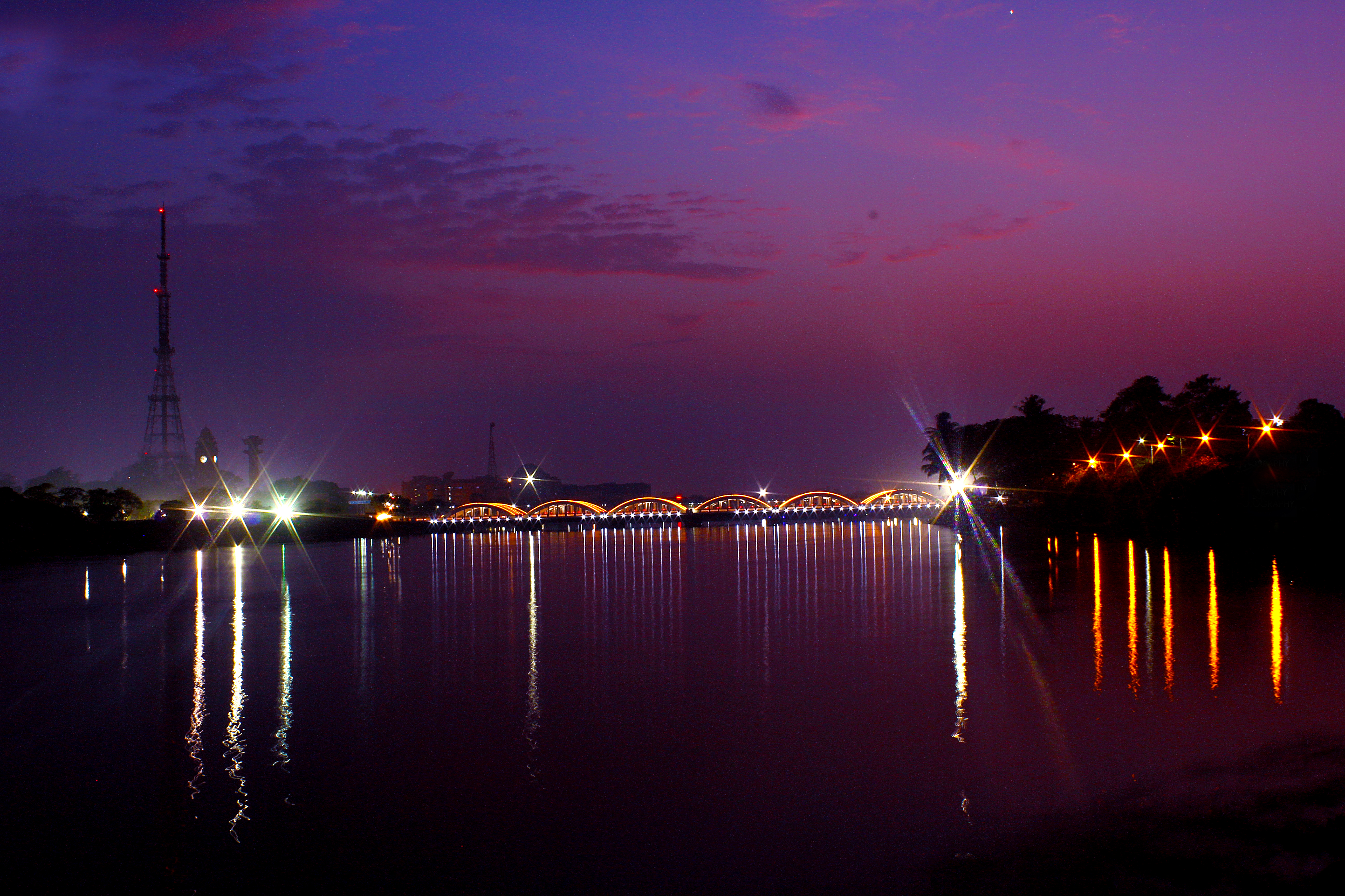 NIght view of Nappier bridge of Chennai tamil nadu India